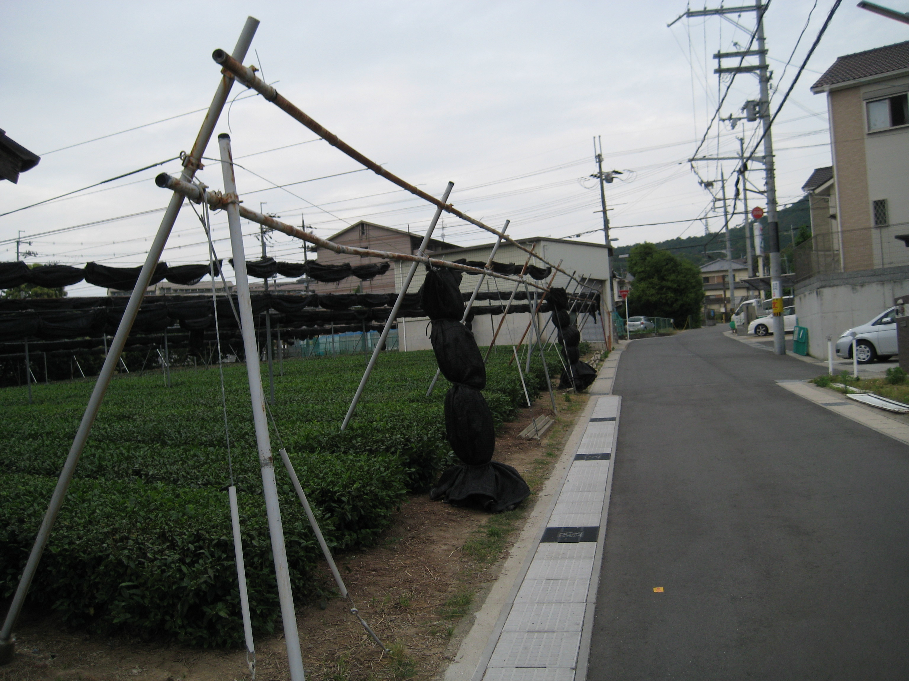 tea plantation in Uji, Kyoto